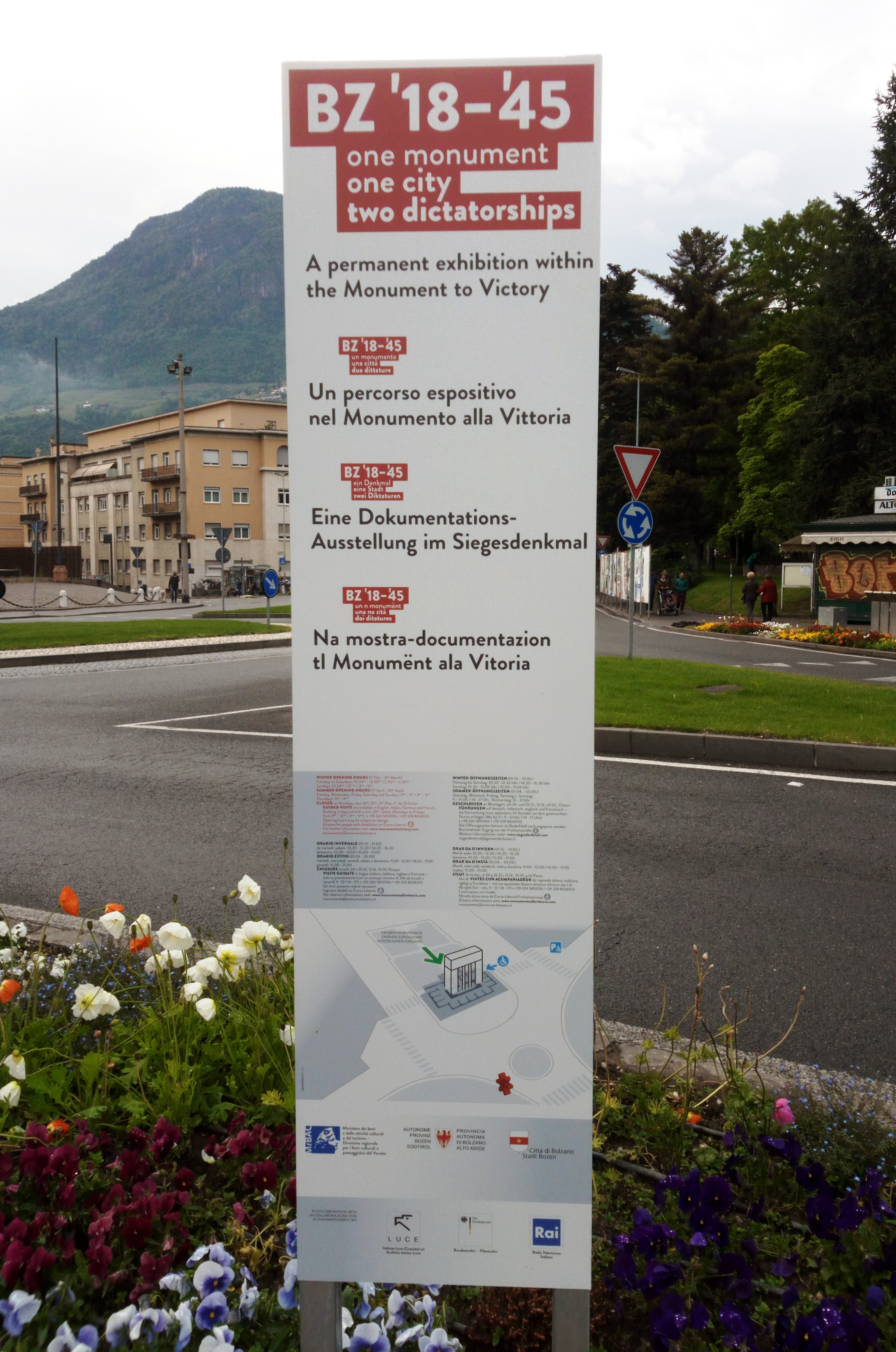 Multilingual Signpost of the Permanent Exhibition "BZ '18-'45: One Monument, One City, Two Dictatorships" established within Bozen-Bolzano's Monument to Victory, 2016